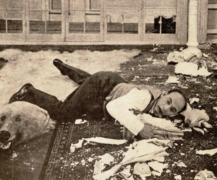 Still from the American short comedy film Buggins (1920) with Leon Errol, on page 50 of the August 7, 1920 Exhibitors Herald.